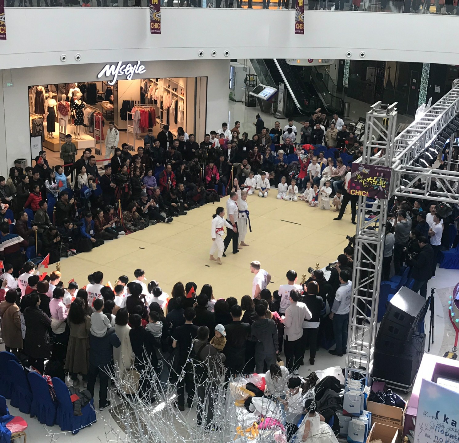 "Boyi Cup" Sino-Russian International Challenge Competition of Kakuto Ju-jutsu - Result Announcement